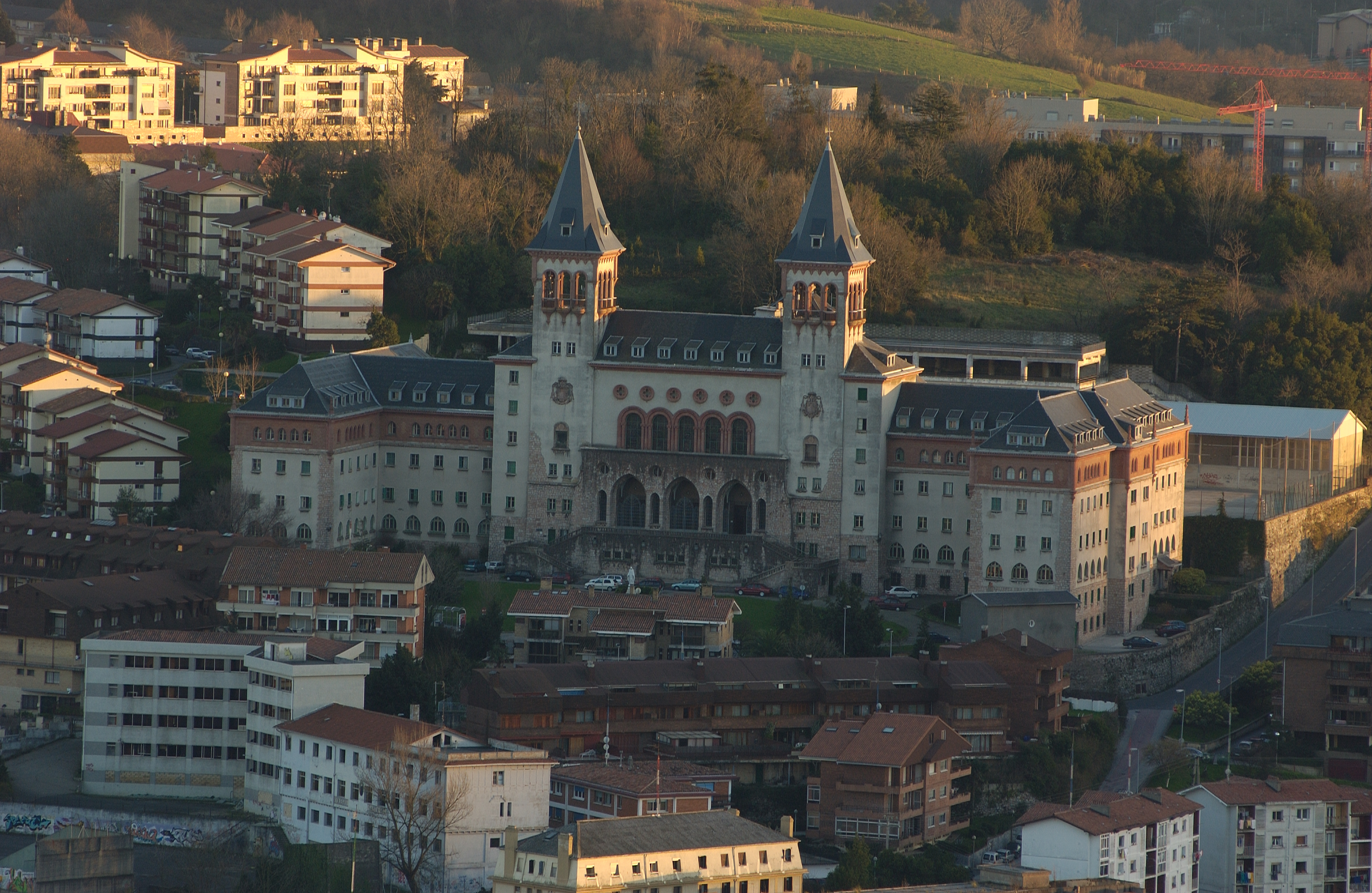 Seminary of Donostia-San Sebastián. Gipuzkoa, Basque Country.